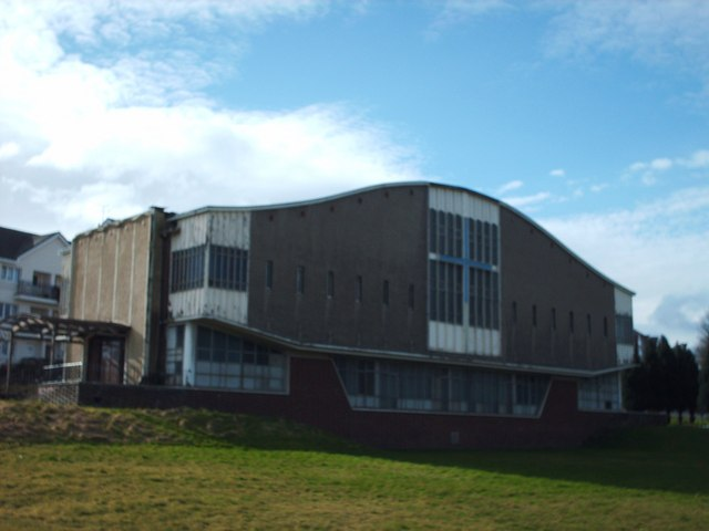 Castlemilk Original description: Castlemilk West Parish Church